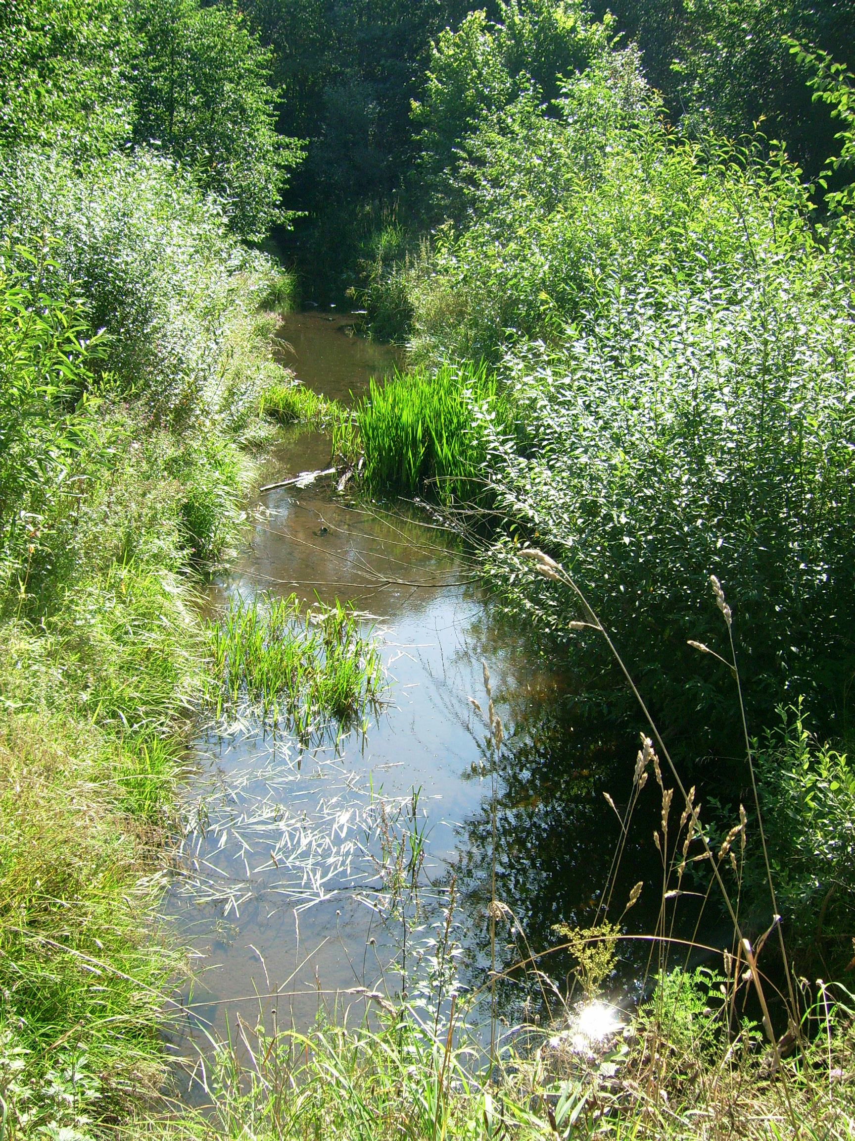 Akmenynas river in Lithuania